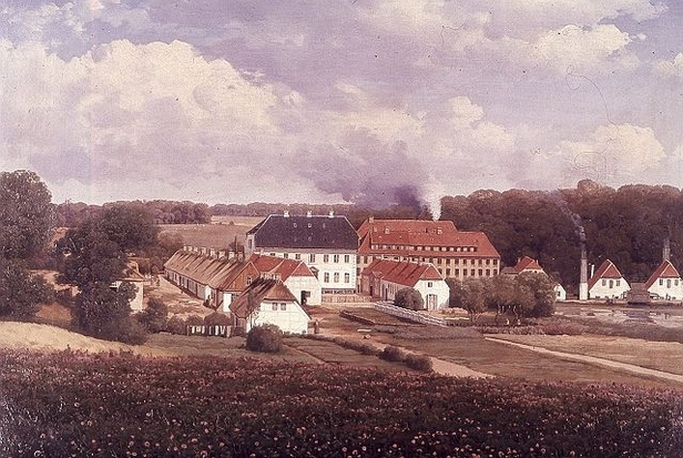 Painting of Brede Vræk north of Copenhagen, Denmark